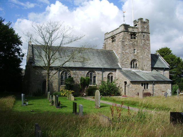 Photograph